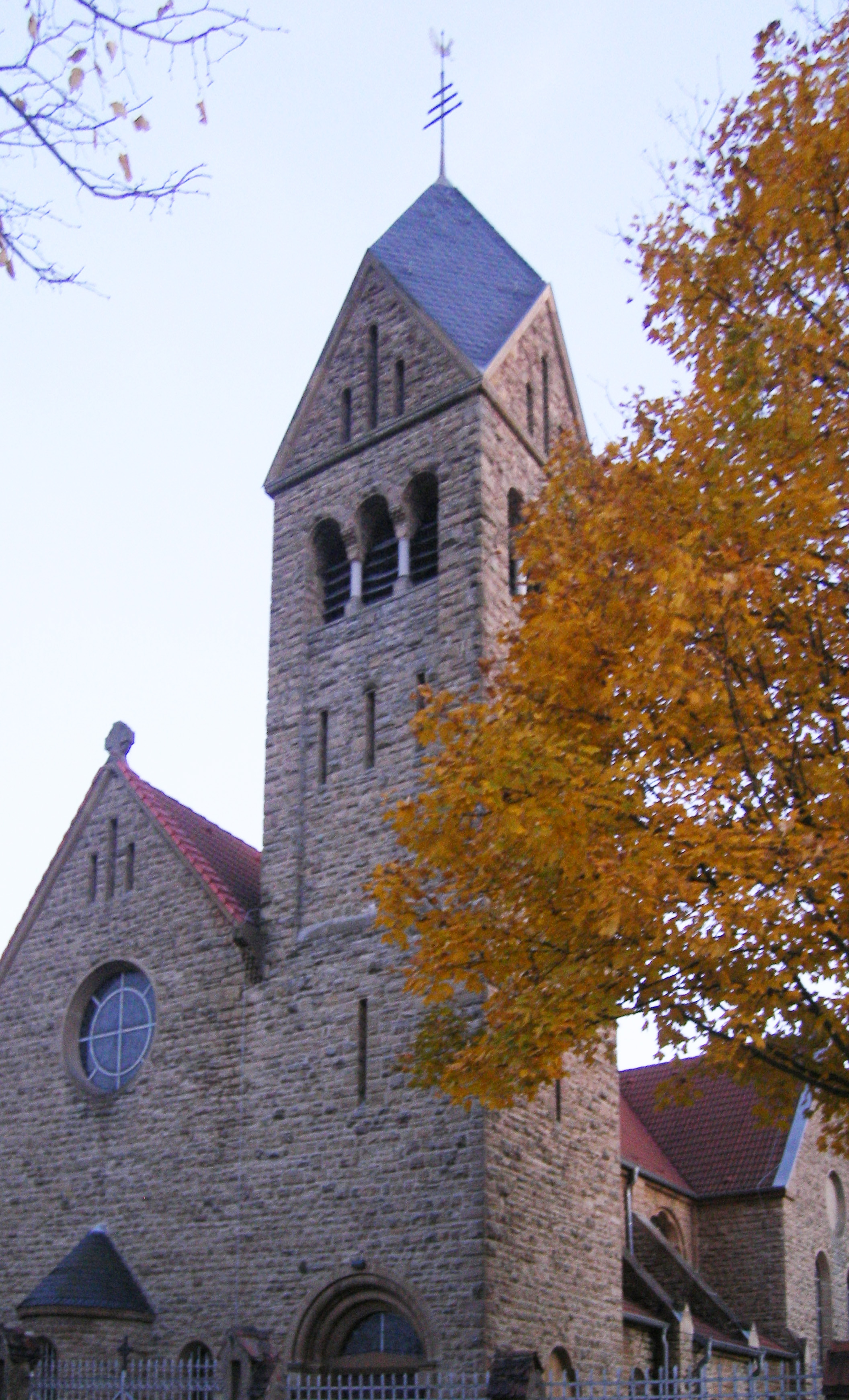 Catholic church in Meuselwitz/Thuringia (Germany)